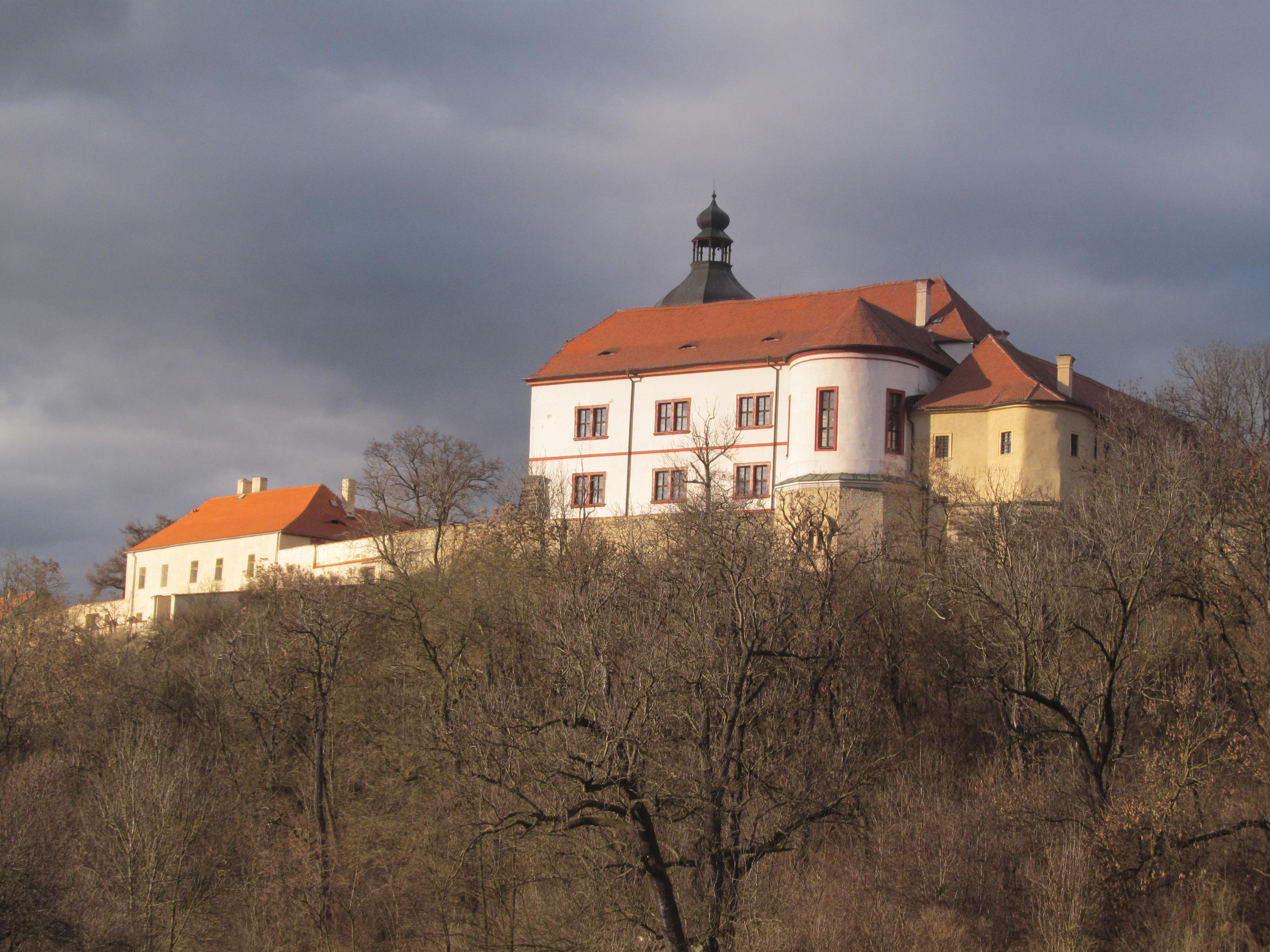 Castle Nový Hrad in Jimlín